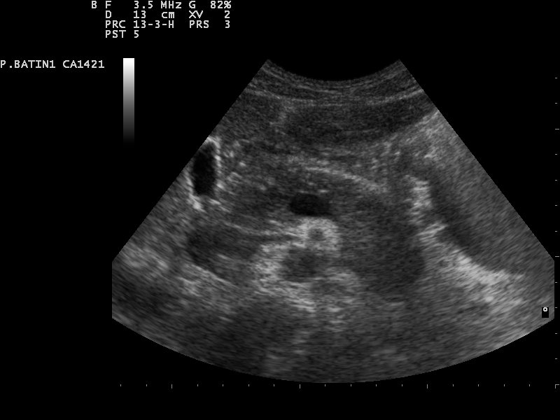 Ultrasound images of pancreas